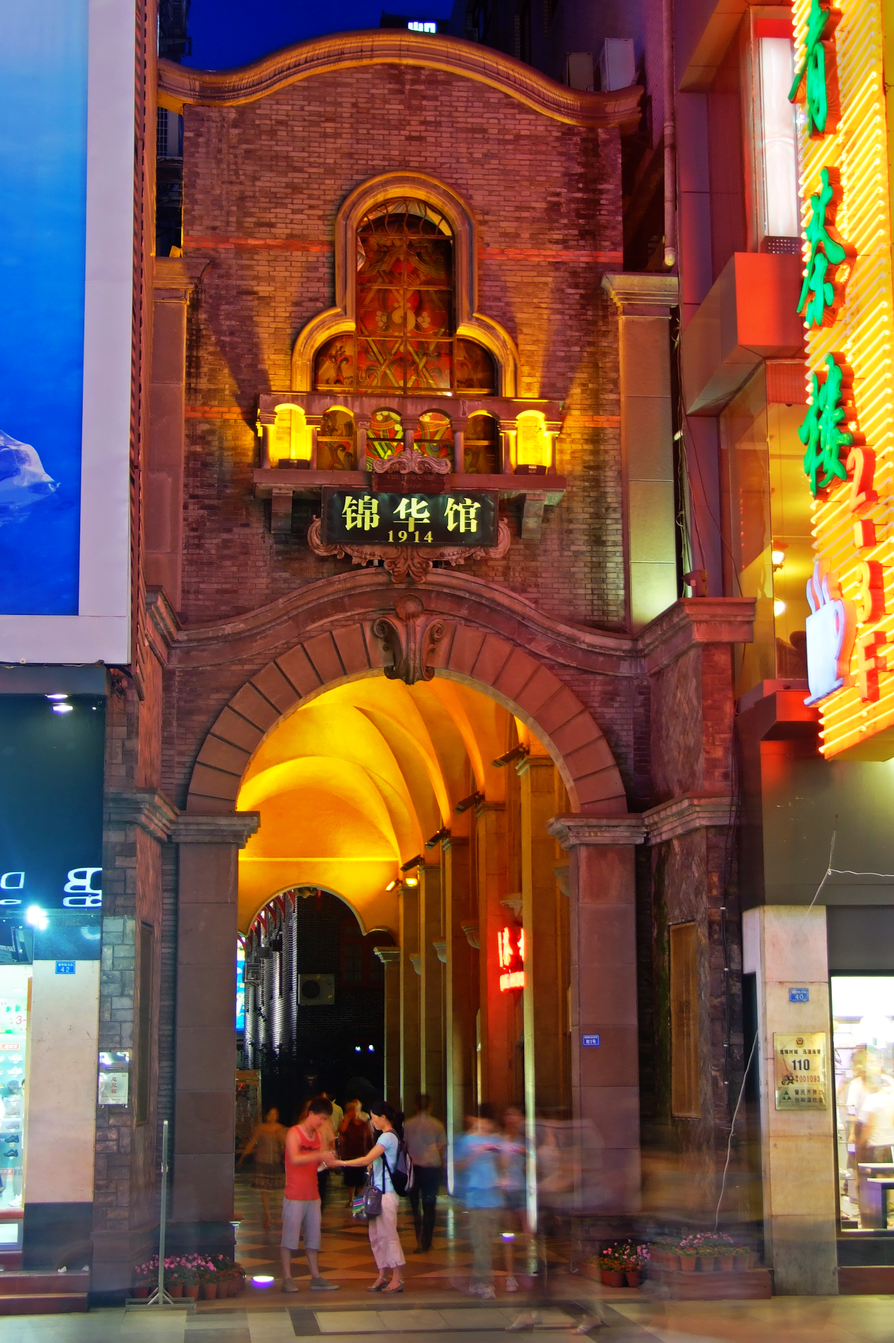 The entrance of Jinhuaguan，chengdu，China.